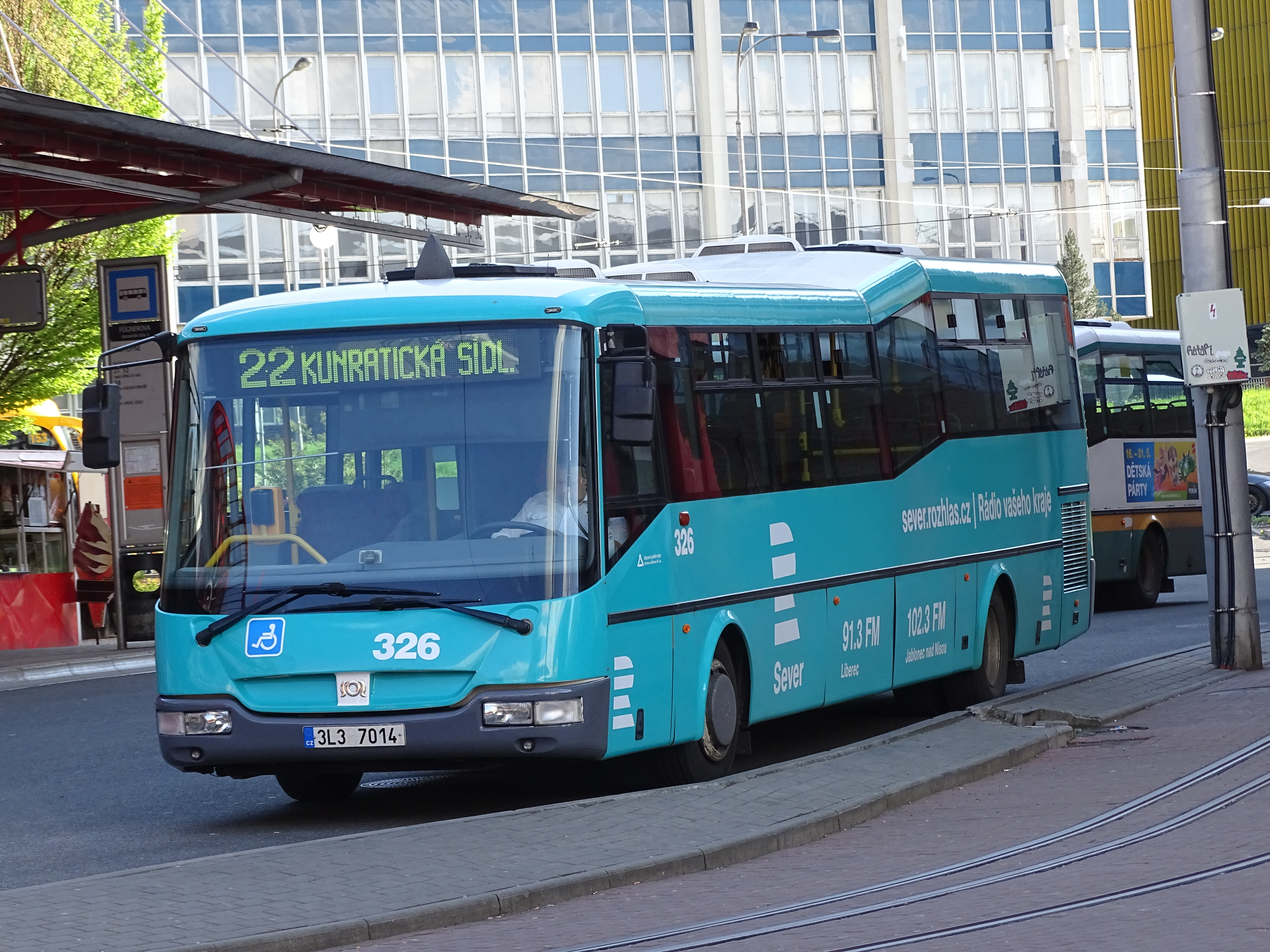 Liberec IV-Perštýn, Liberec District, Liberec Region, Czech Republic. Fügnerova station, a bus.